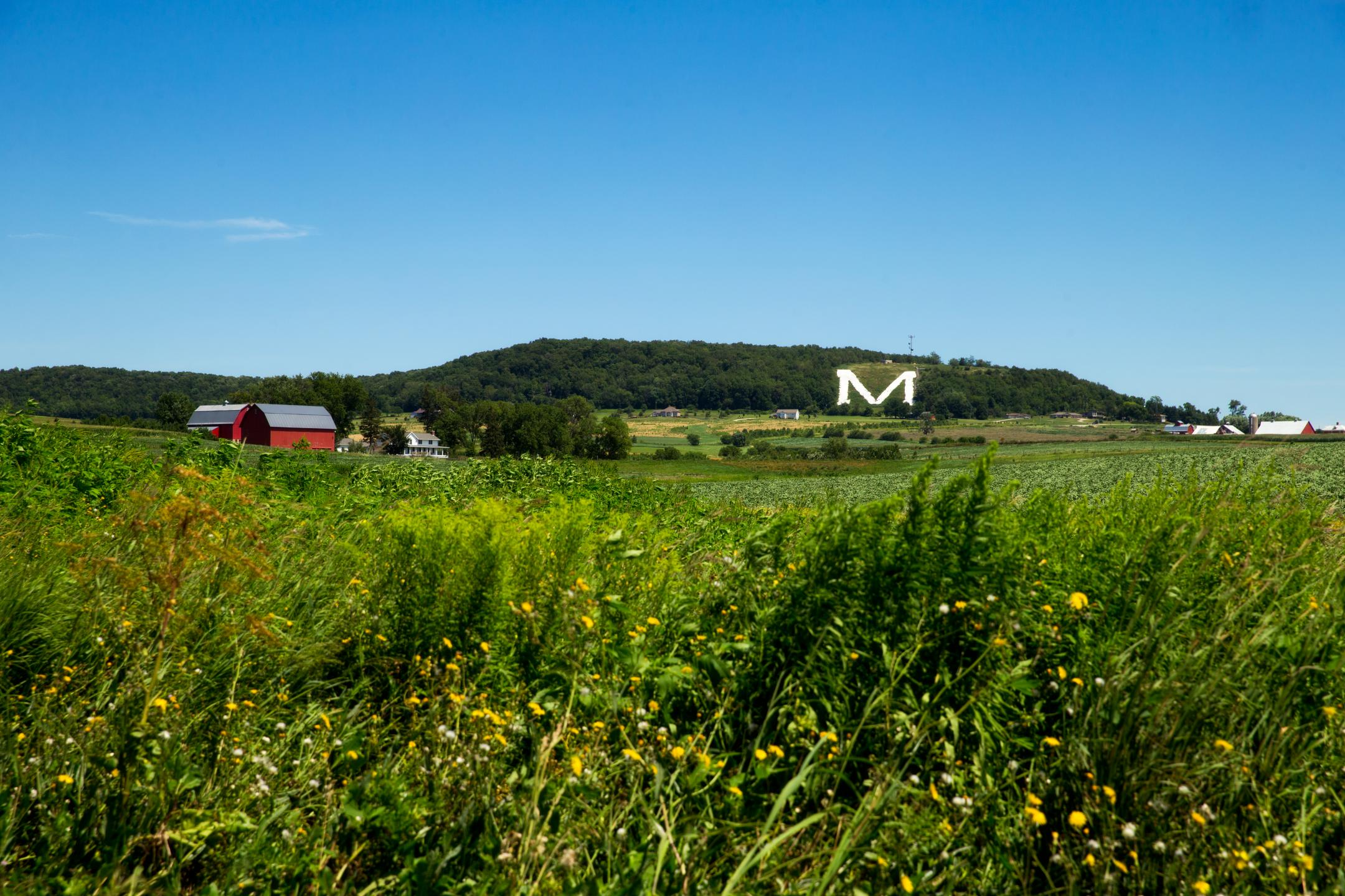 Platte Mound east of Platteville, Wisconsin